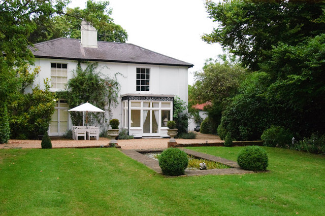 Bonks Hill House The former residence of the family of Thomas Rivers, founder of Rivers Nursery in Sawbridgeworth, who had strong connections with Charles Darwin through his ground-breaking experiments in horticulture and plant breeding.